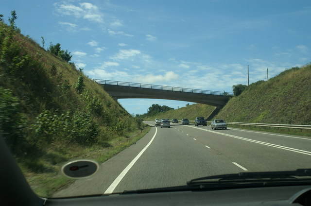 A39, Trevanson. The A39 Atlantic Highway climbing away from the Camel bridge west of Wadebridge